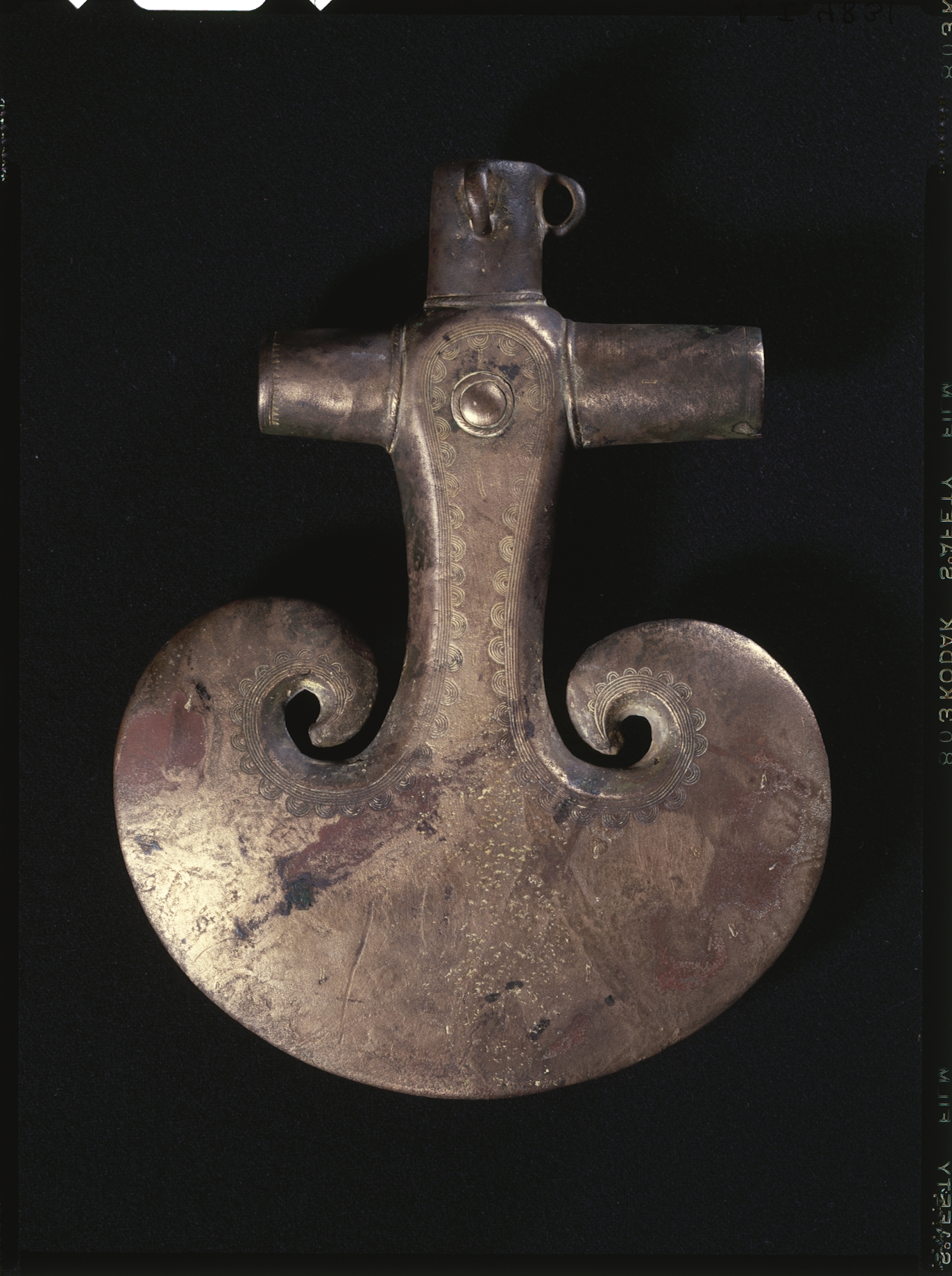 Ceremonial axe, Nordsjælland, Denmark, younger bronze age